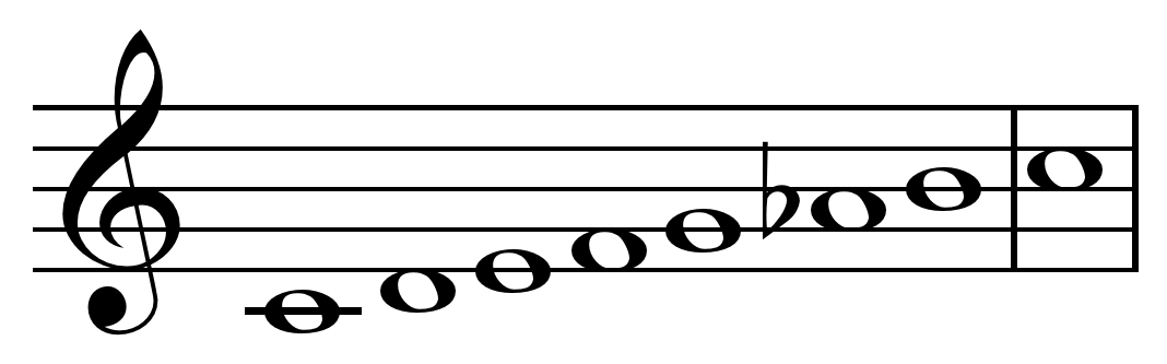 Harmonic major scale on C. Created in Sibelius.